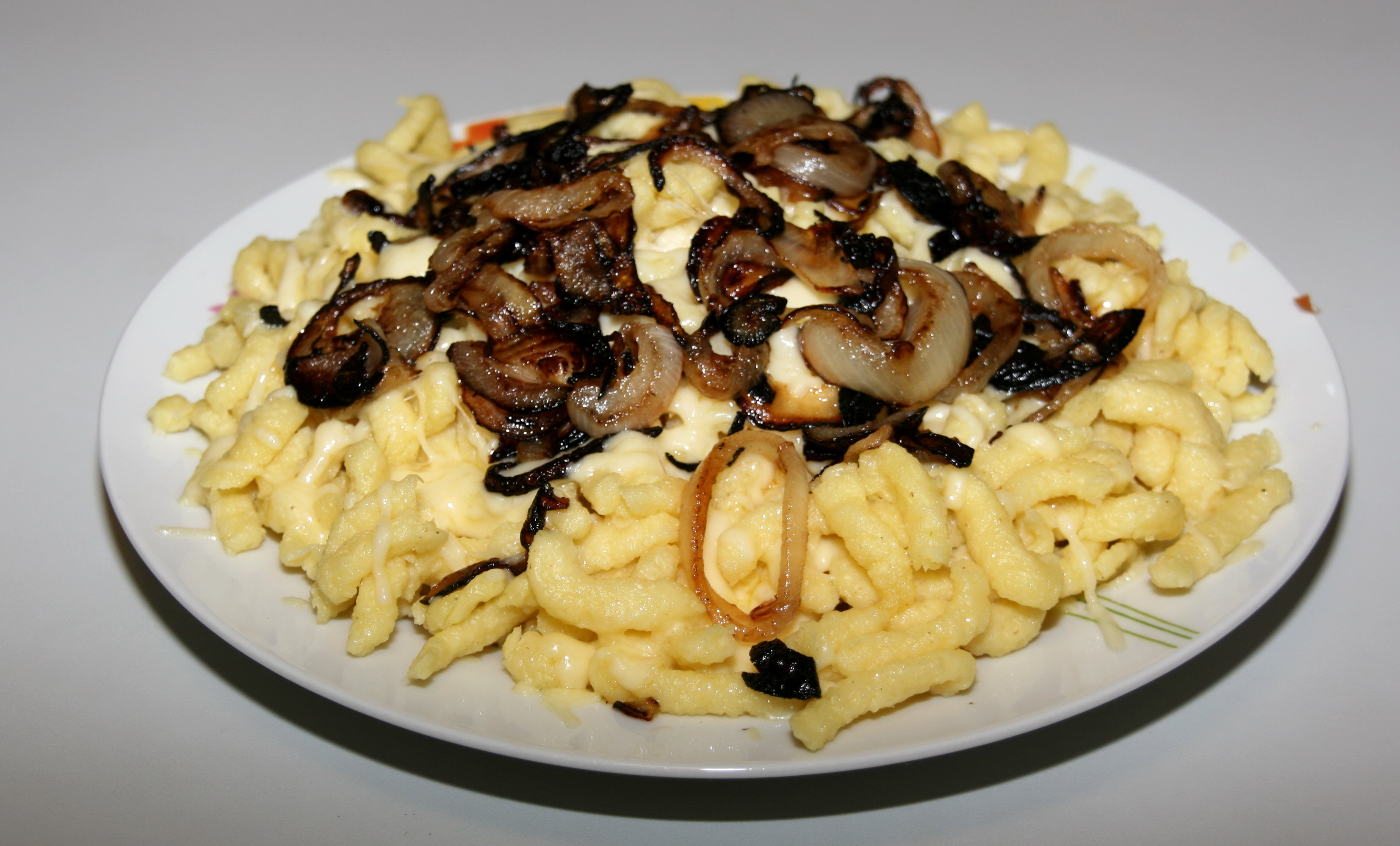 Spaetzle kombined with Cheese and Onions